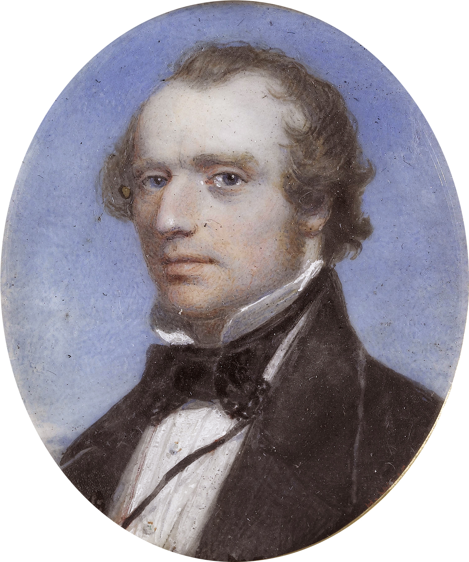 Edward Henry Corbould (1815-1905) oval 4 cm high signed: H. WEIGALL/ AUG. 1850 inscribed verso: Edward / Henry / Corbould / AUGUST. 1850